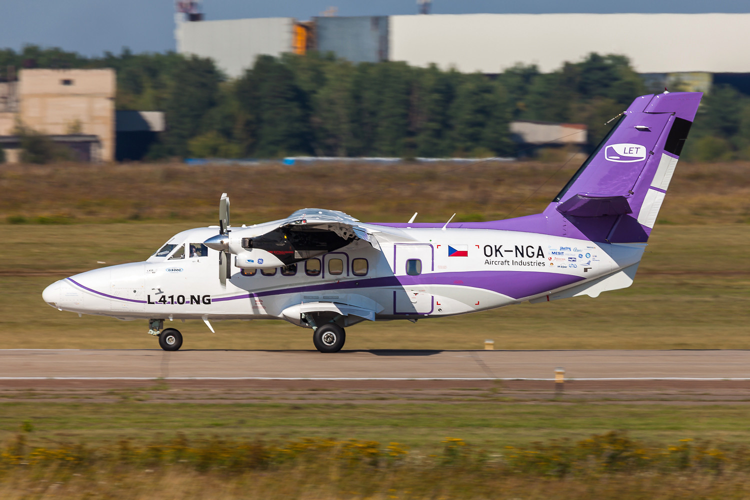 Let L-410NG at 2015 MAKS